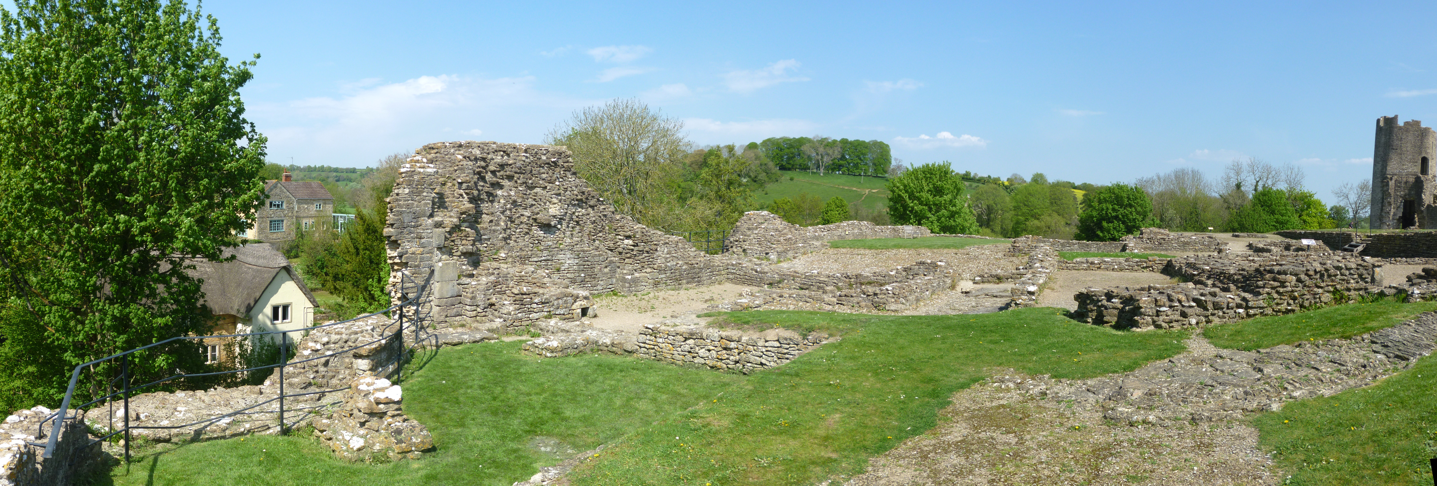 Farleigh Hungerford Castle Inner Court